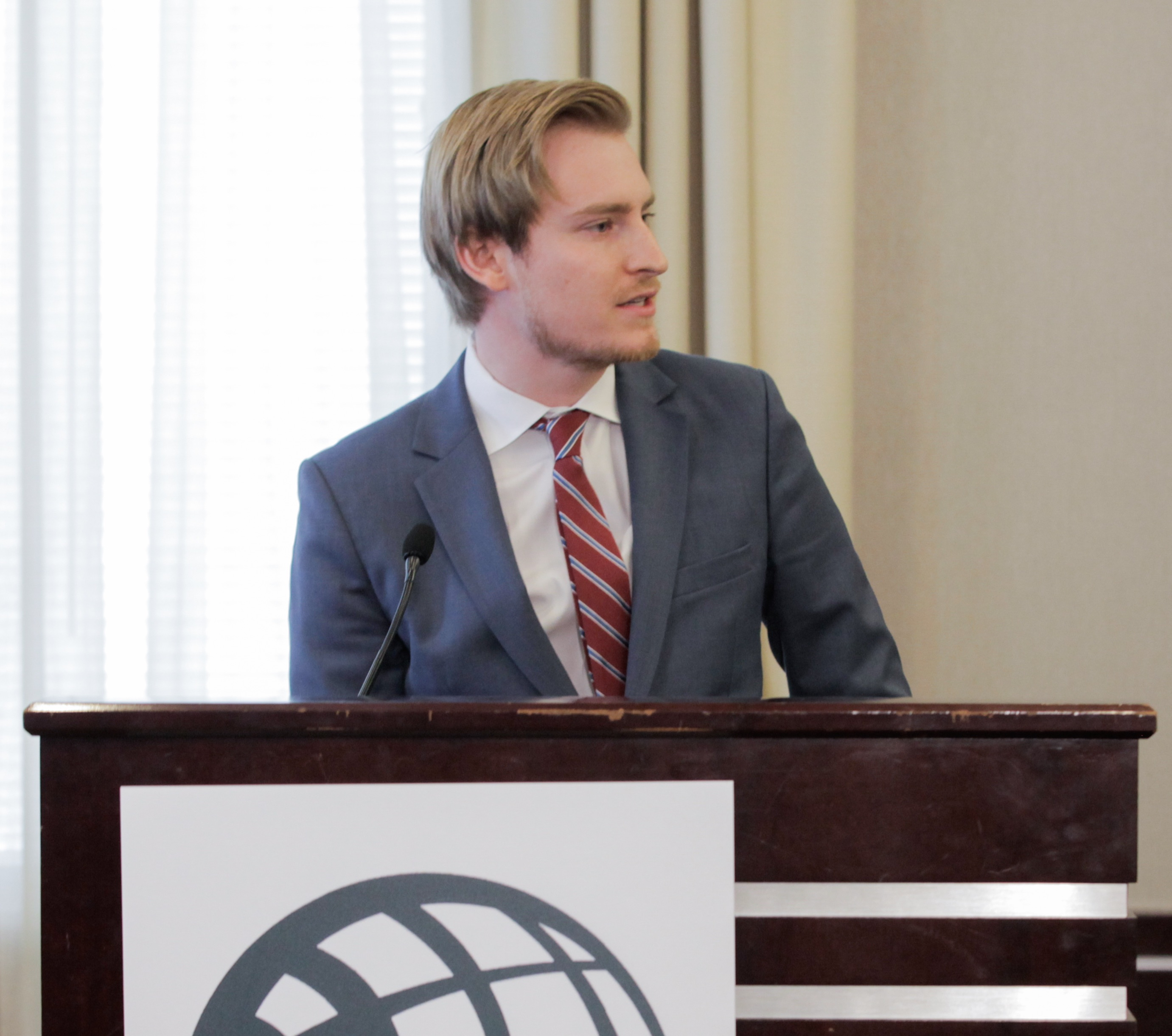 Edelman speaks at Cybersecurity Conference